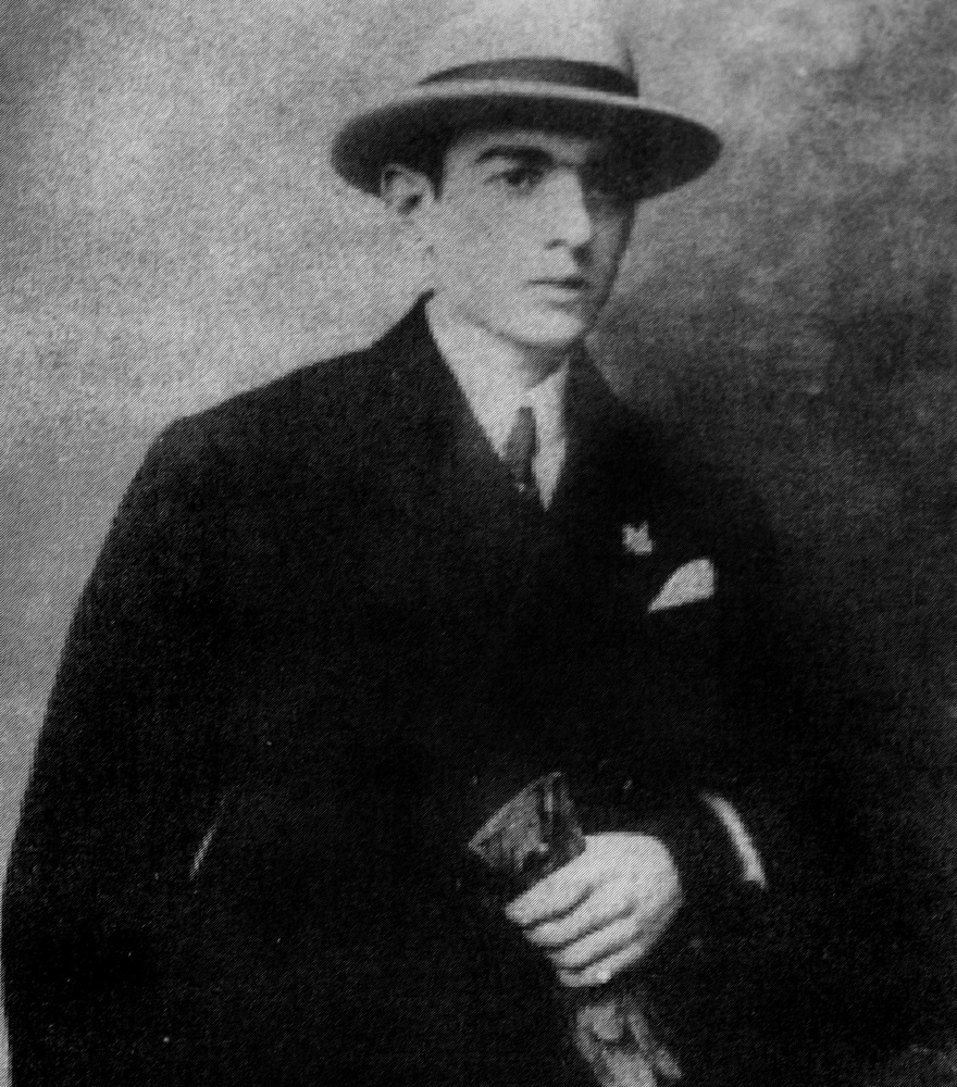 Bulgarian writer Kiril Krastev (1904-1991)